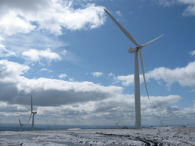 Scout Moor Wind Turbine No 25 goes live. On Sunday 6th of April 2008 Turbine No 25 became very the first turbine on Scout Moor to go live and start generating. Engineers from the manufacturer Nordex spent all that day and the following two weeks testing the on board electrical equipment.